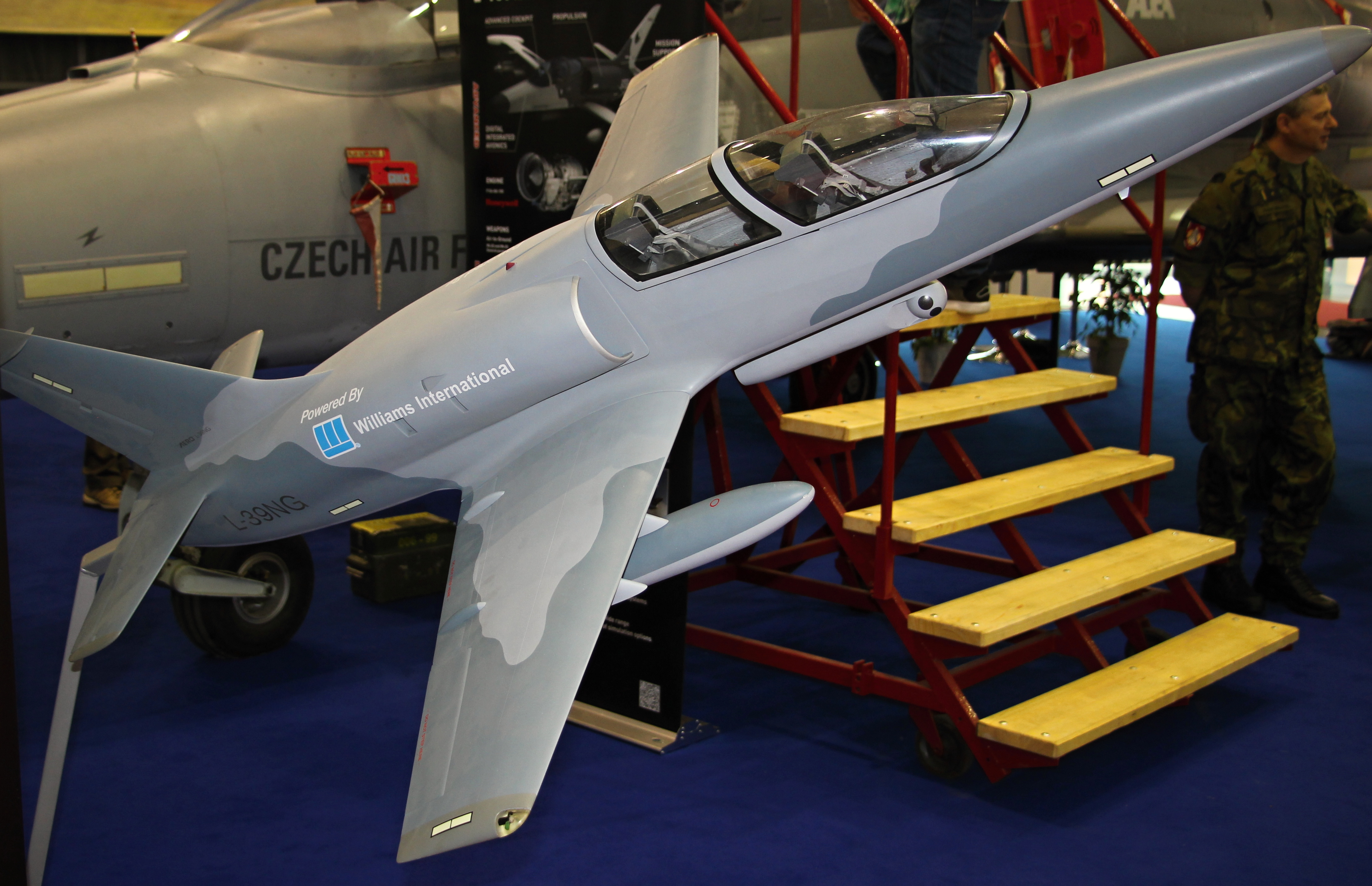 L-39NG trainer aircraft model by Aero Vodochody. IDET 2017, Brno Exhibition Center, Czech Republic.